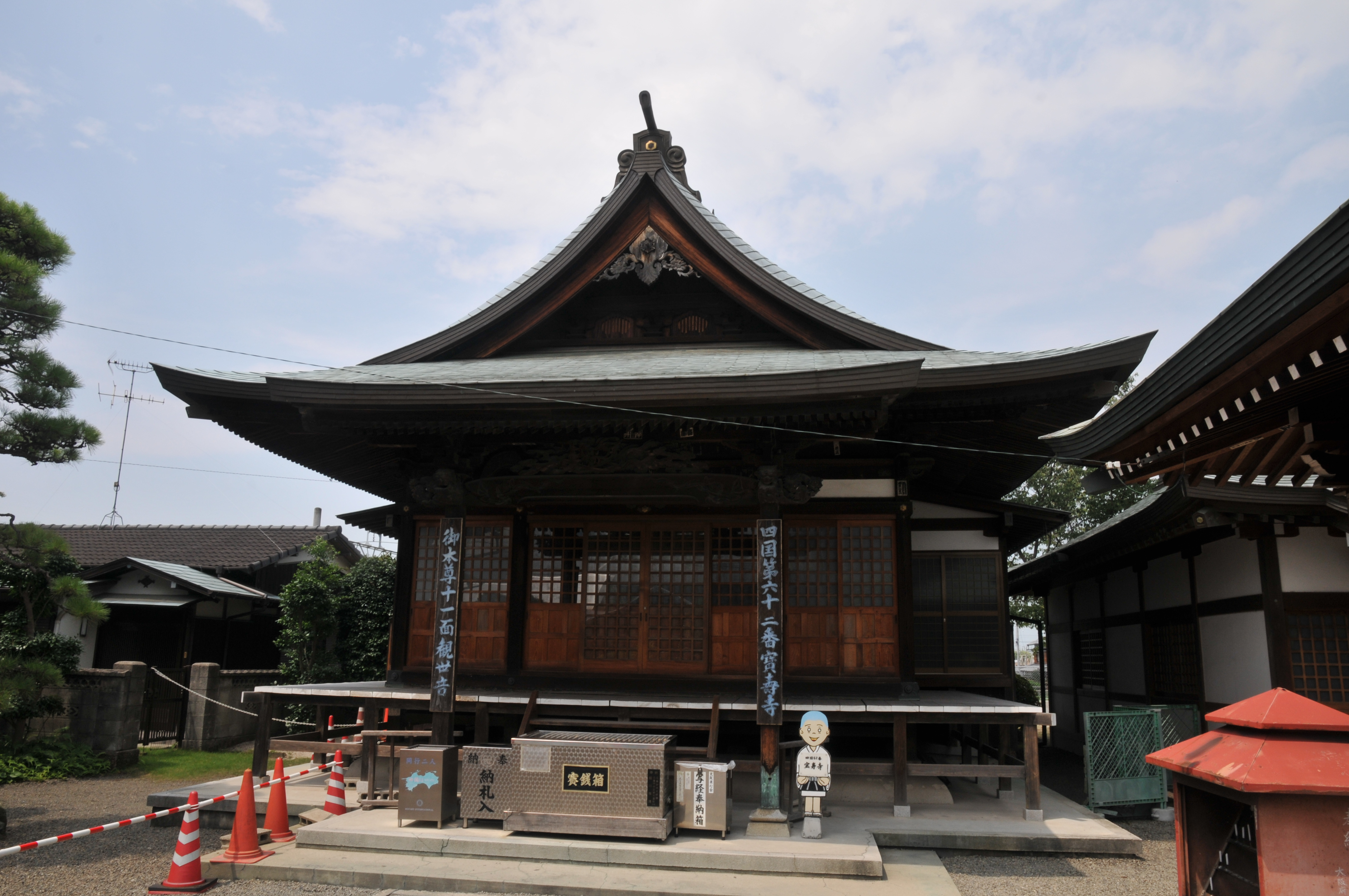 Main temple, Hōju-ji